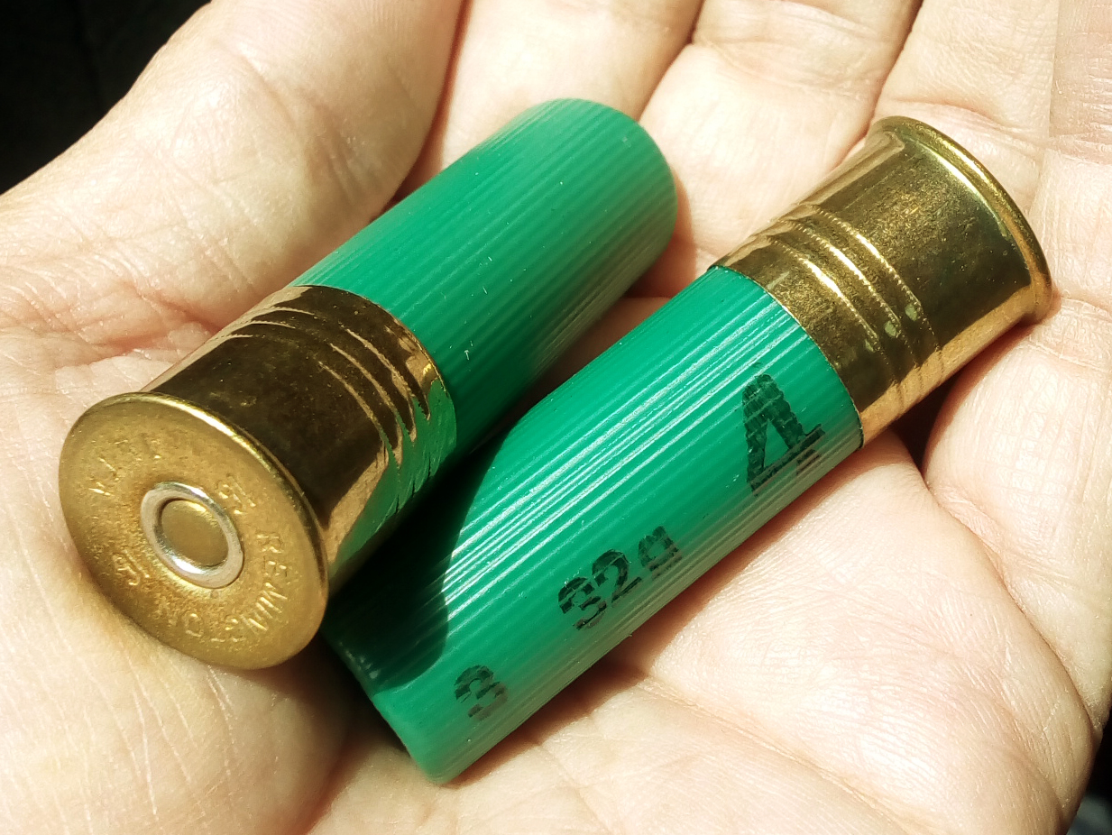 Remington shotgun shells, 16 gauge, 32 grains. High speed #4 pellets.